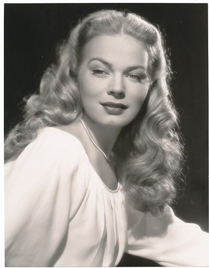 A publicity shot of actress Kristine Miller in the Western Domino Kid (1957).